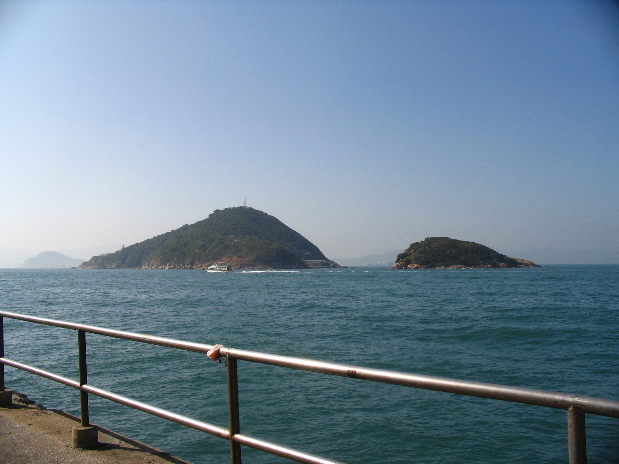 Photo of Green Island and Little Green Island